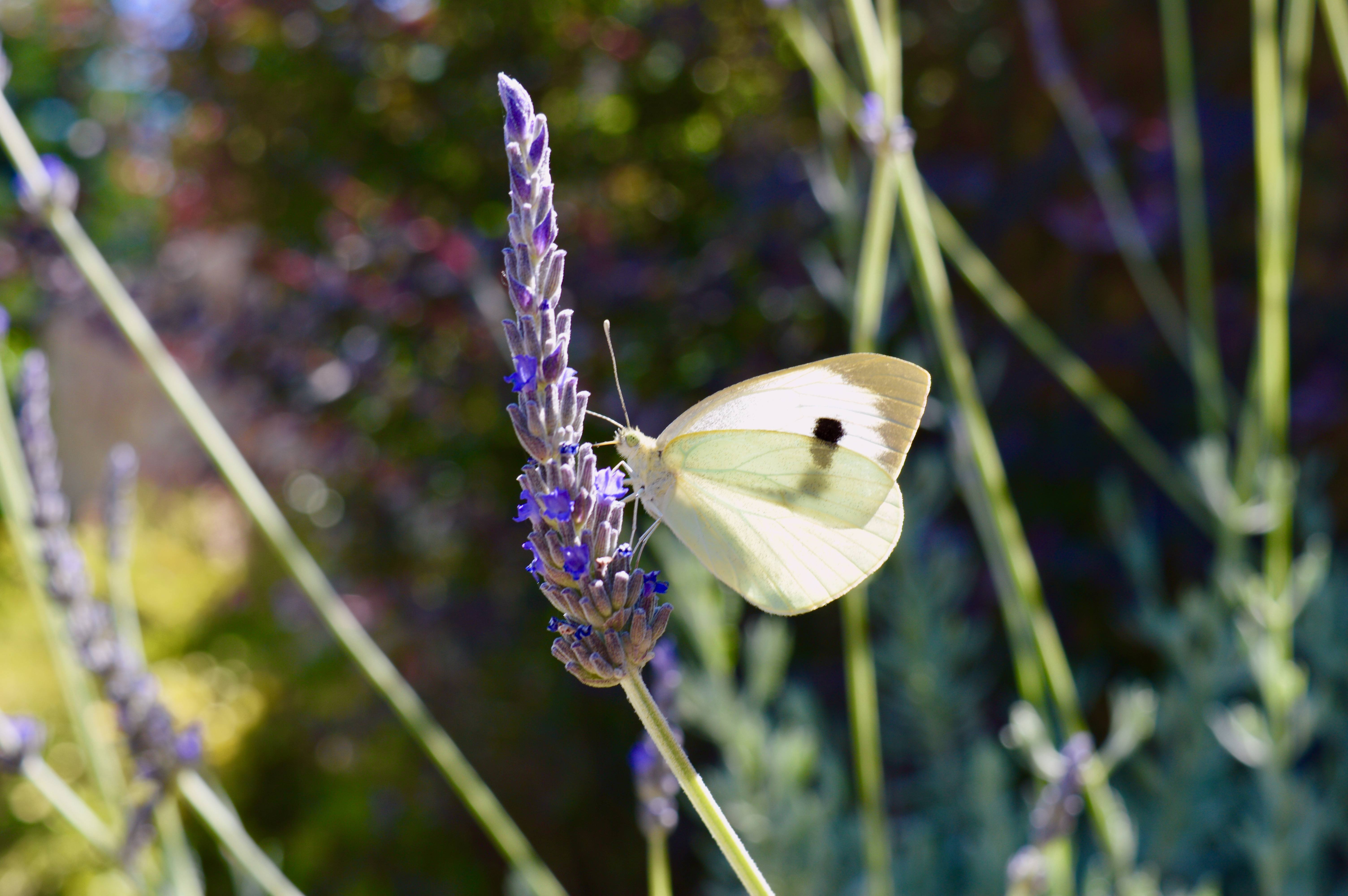 This is a photography of Natura 2000 protected area with ID GR3000005